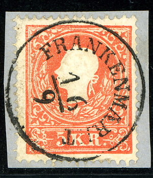 5 kreuzer Issue II Frankenmarkt Müller postmark: 704c type RS-f (35)